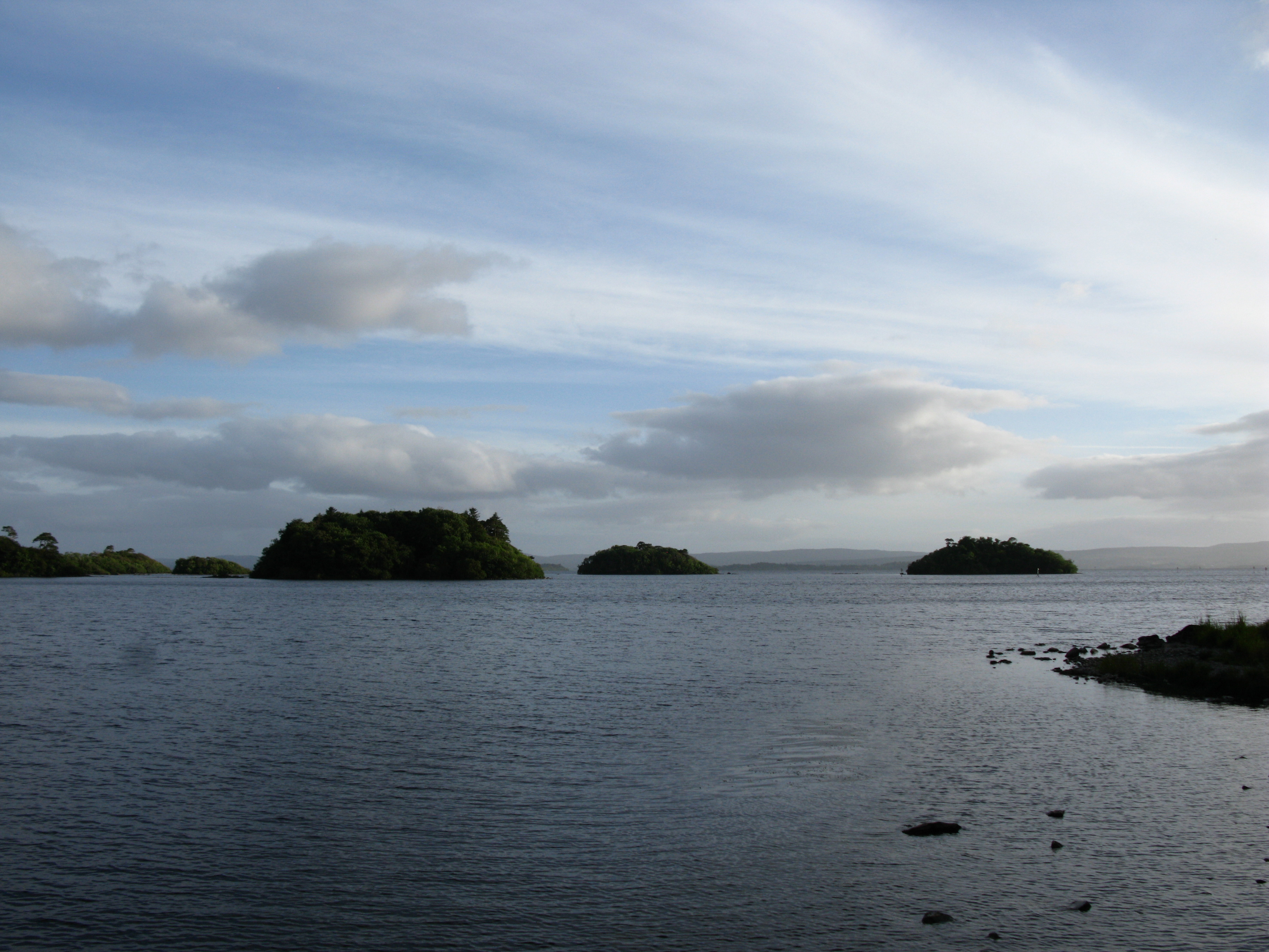 Lough Corrib from Ashford Castle, Cong, County Mayo, Ireland